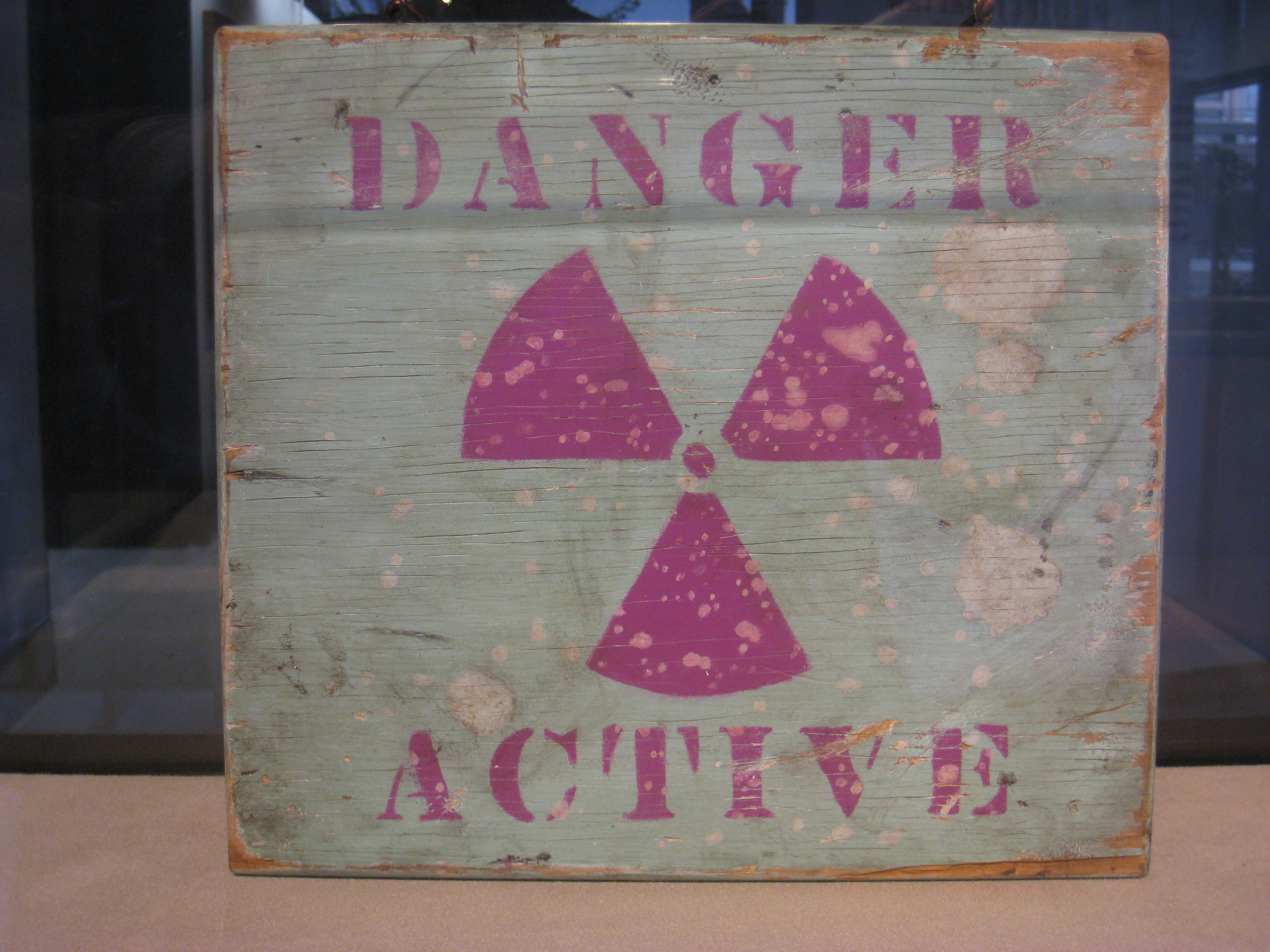 Radiation symbol from Ernest O. Lawrence's Radiation Laboratory, now displayed in the Department of Energy museum, James V. Forrestal Building, Washington, DC, USA. A museum placard describes it as the first radiation symbol.